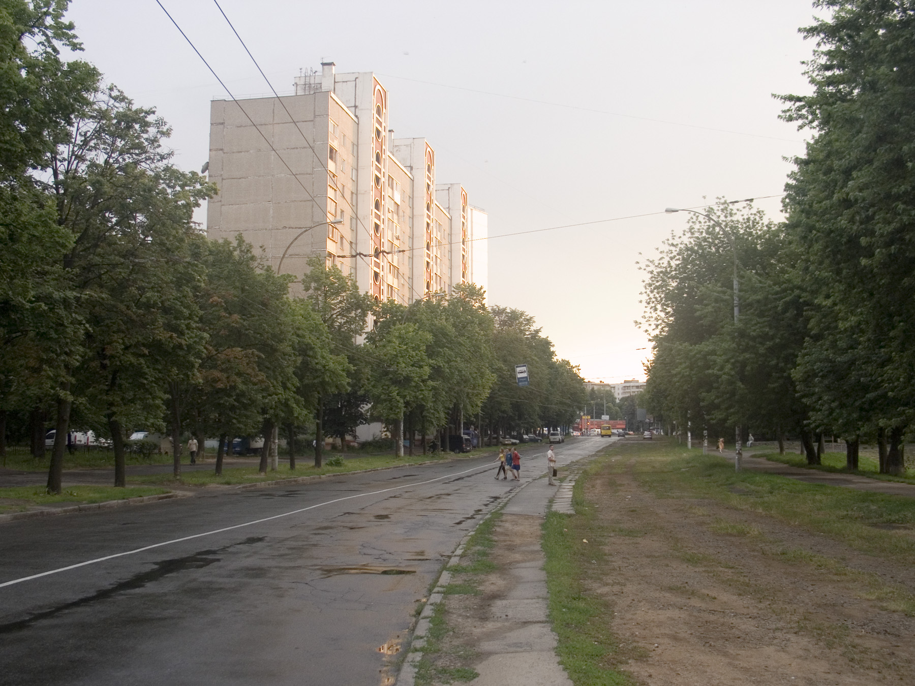 Volgogradska Street, Kyiv, Ukraine